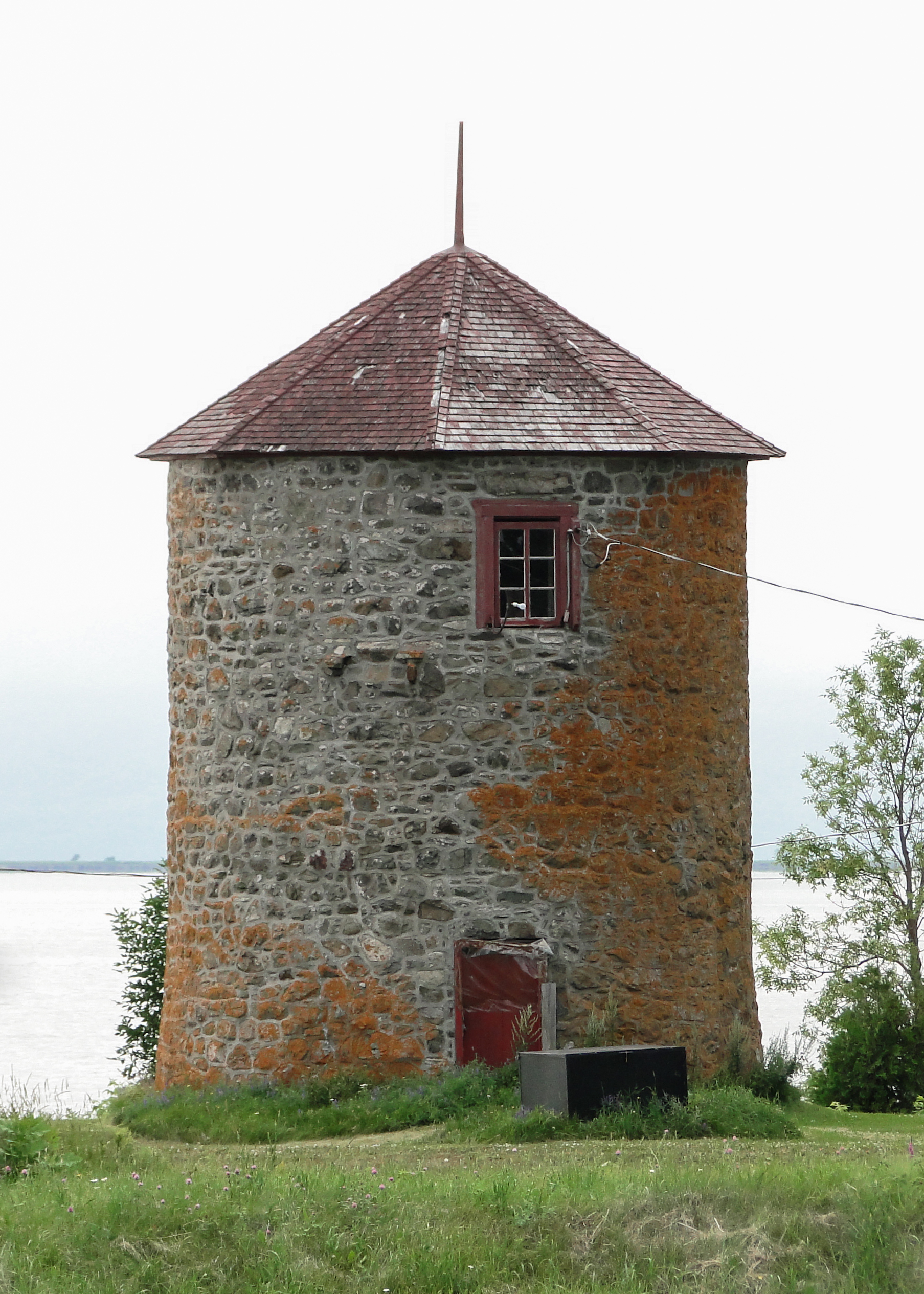 Vincelotte Windmill (1690), Cap-Saint-Ignace, Province of Quebec, Canada